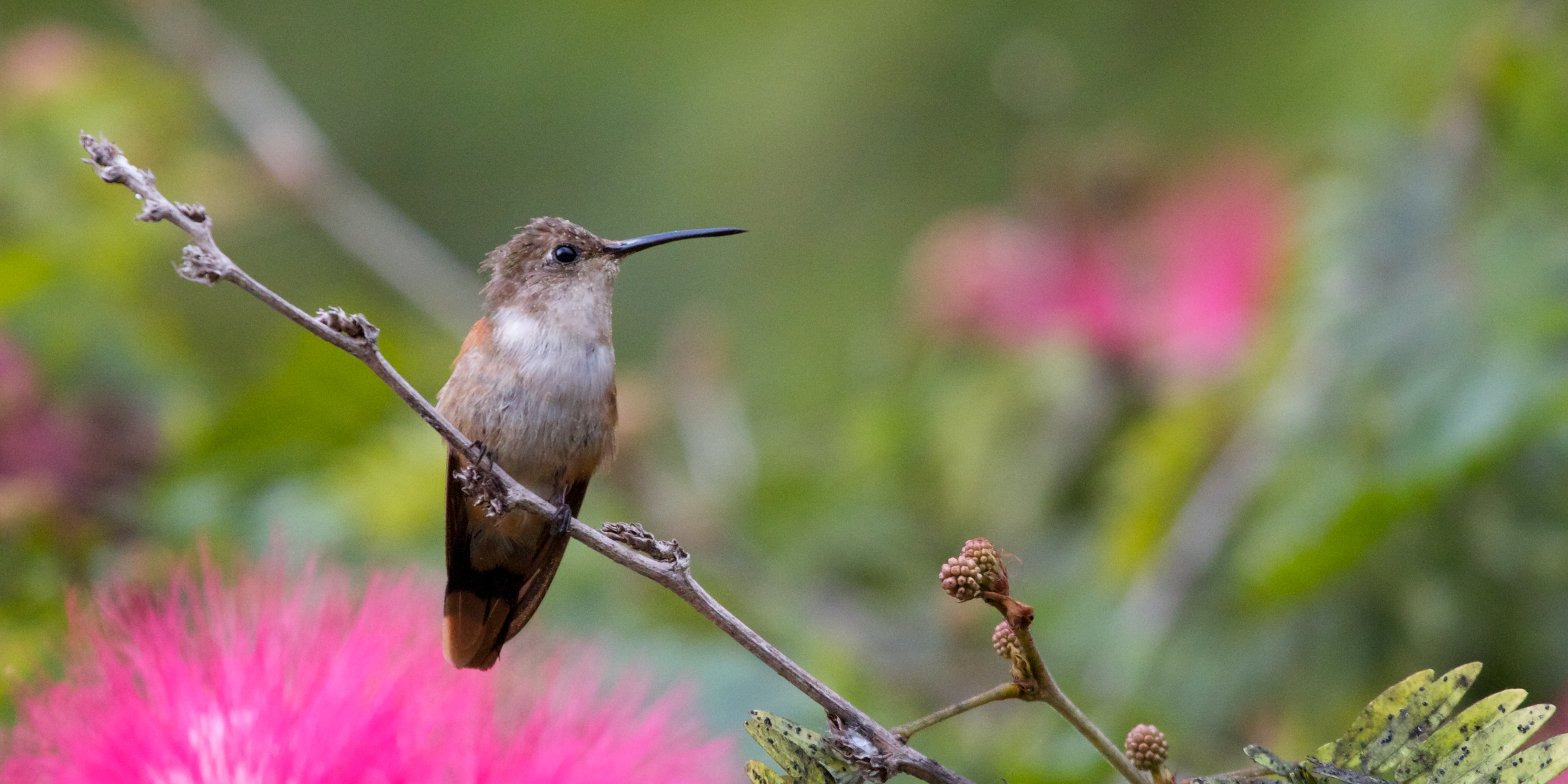 Female Bahama Woodstar (Calliphlox evelynae), covered in pollen. Taken in the Bahamas.